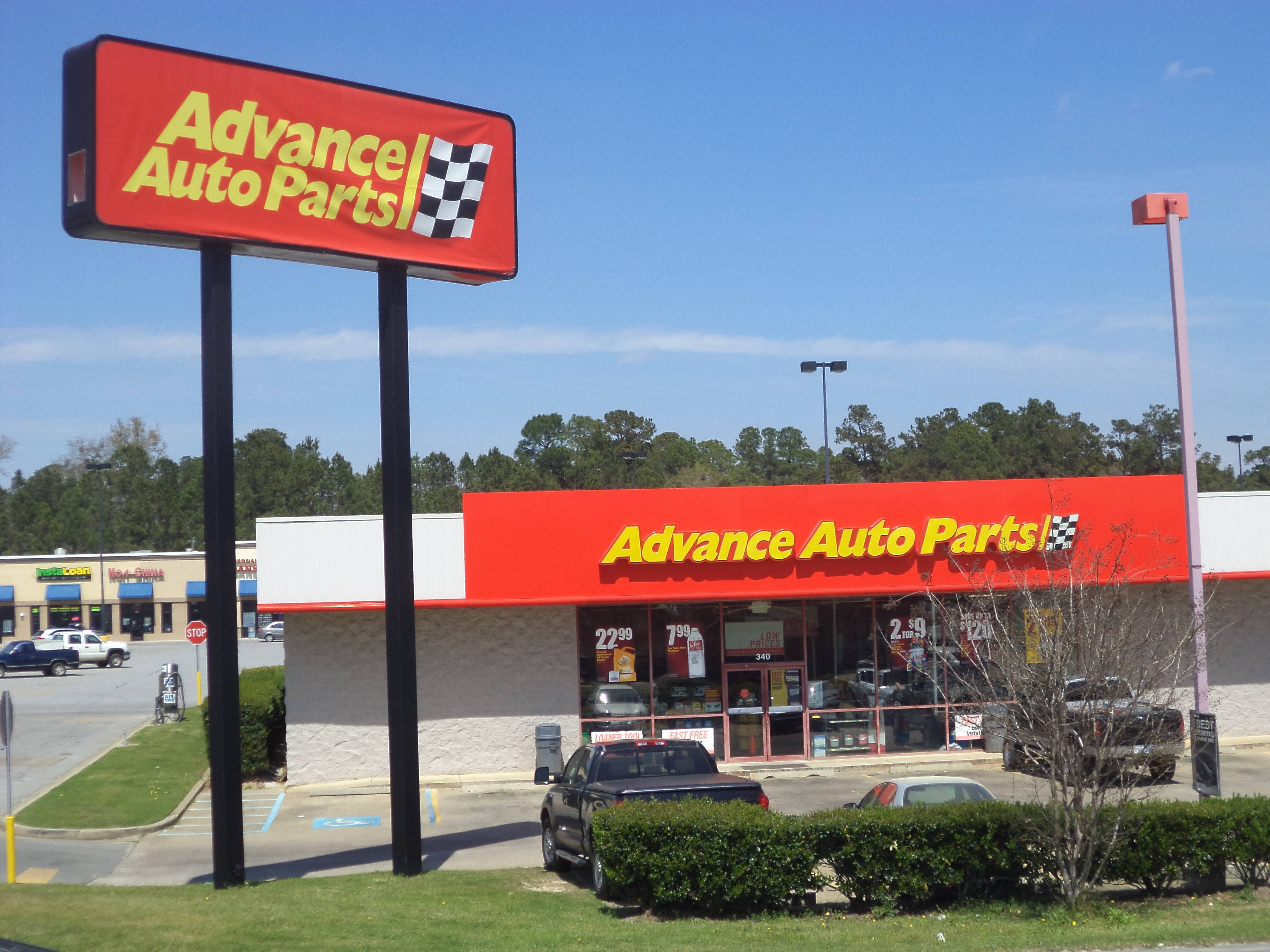 Advance Auto Parts, 340 8th Ave NE, Cairo, Thomas County, Georgia